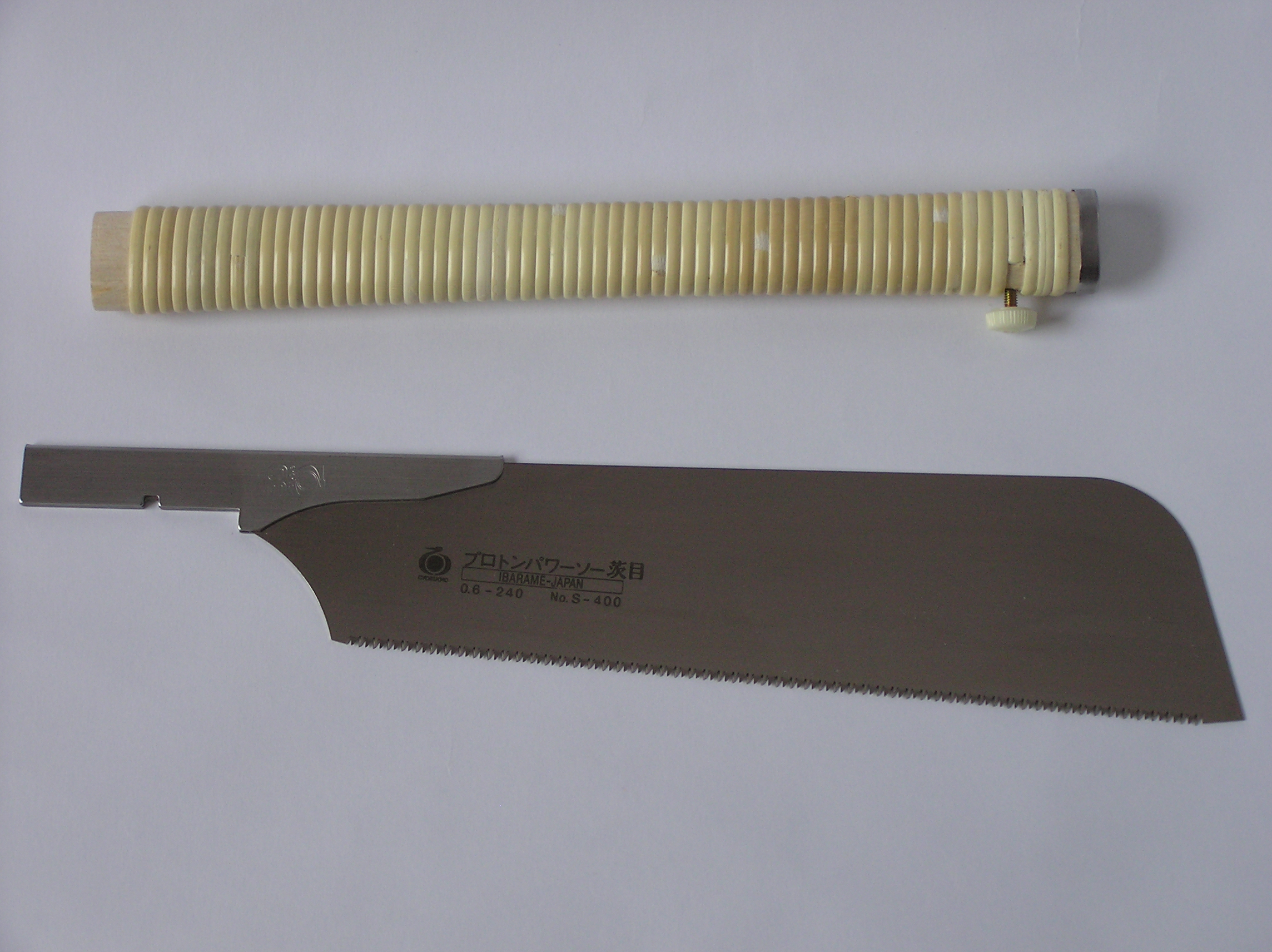 Japanese Saw named Katabi take apart